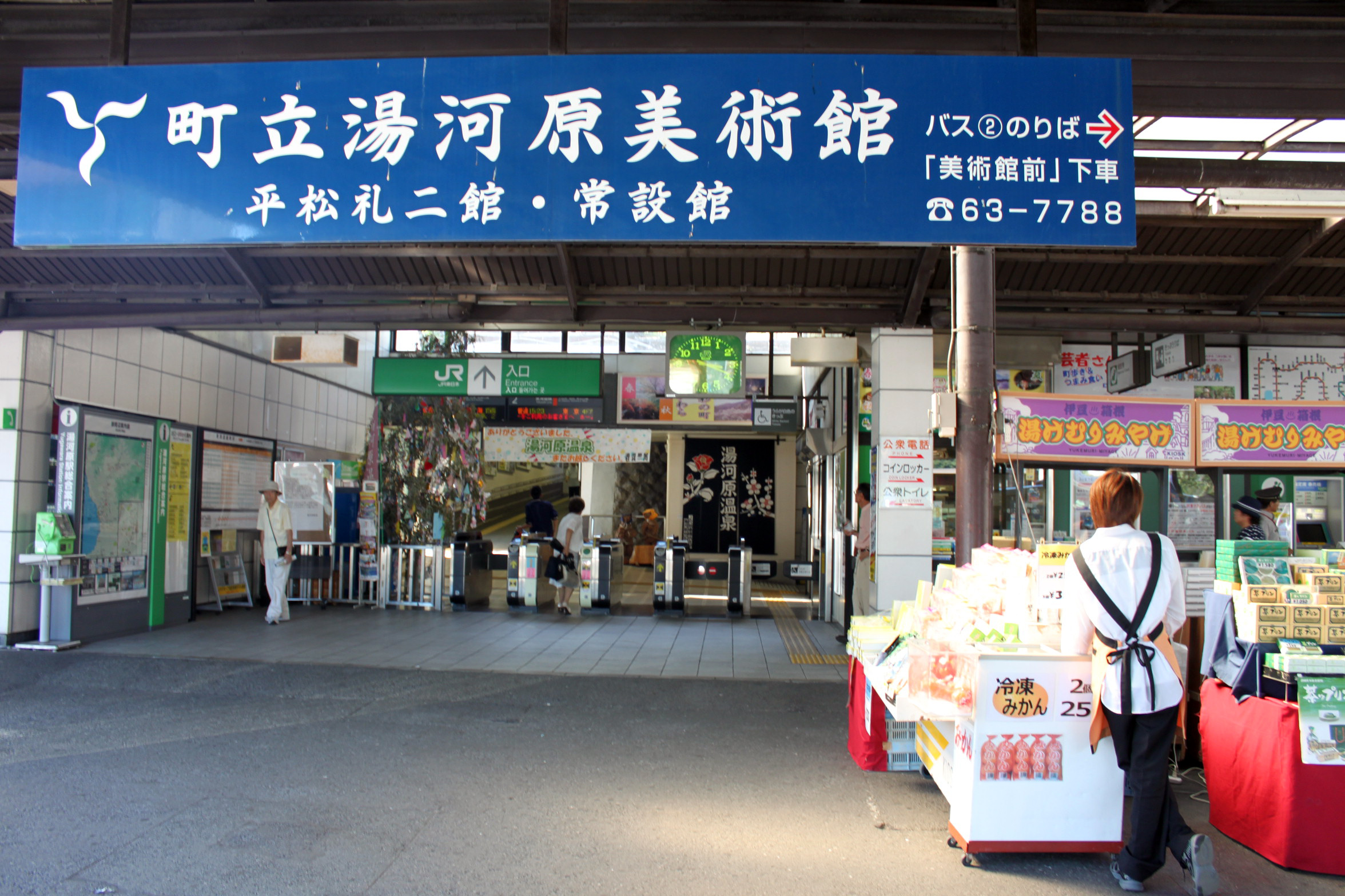 Yugawara, Kanagawa Prefecture, view of station gate Picture by Bertel Schmitt